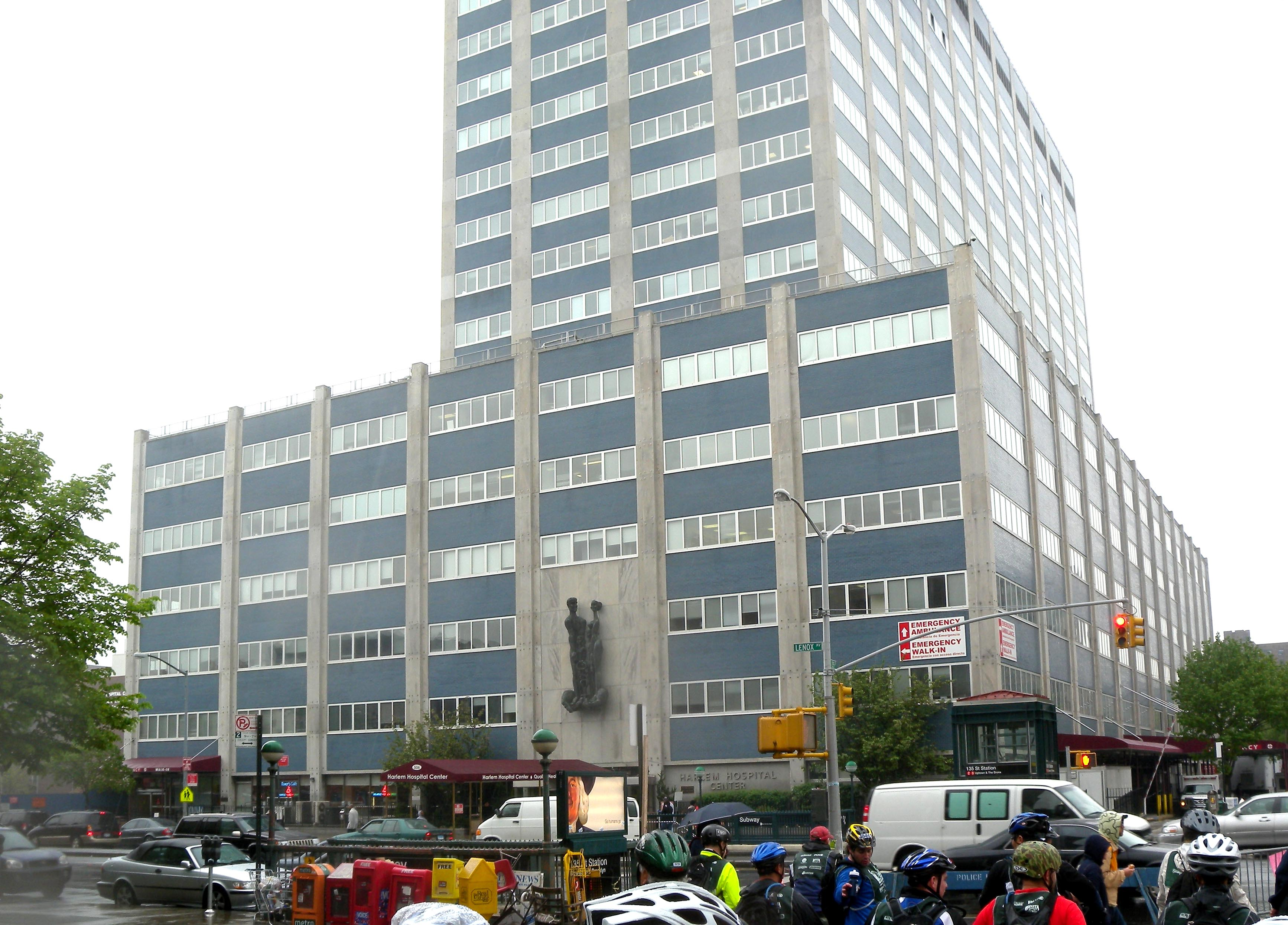 Looking east across 135th Street and Lenox Avenue on a rainy morning during Five Boro Bike Tour. The building in the background is the Harlem Hospital Center, which opened on September 6, 1969.[1]